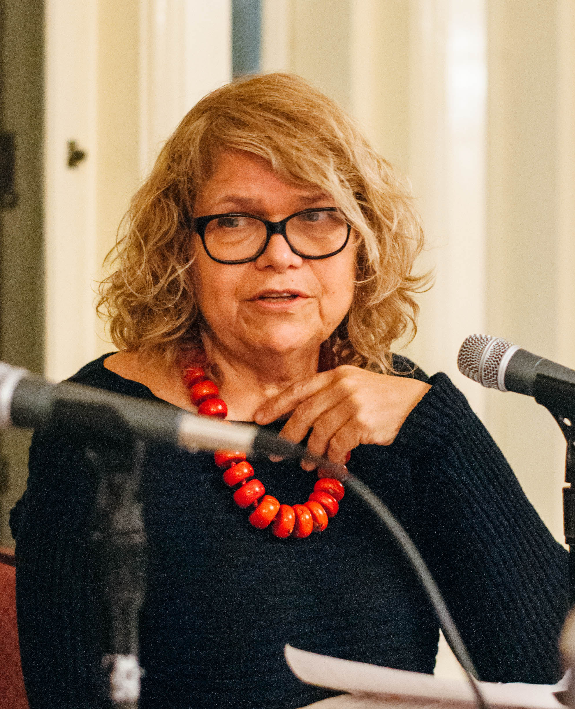 The Crime and the Silence: A Reading & Conversation with Anna Bikont, Alissa Valles, and Irena Grudzinska Gross. At the Boston University Castle. Thursday, October 29, 2015.